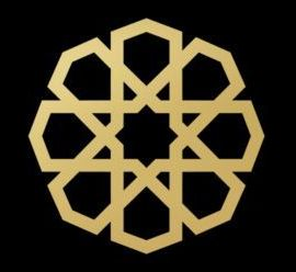 Graphical logo of the Khalili Collections, taken from its web site